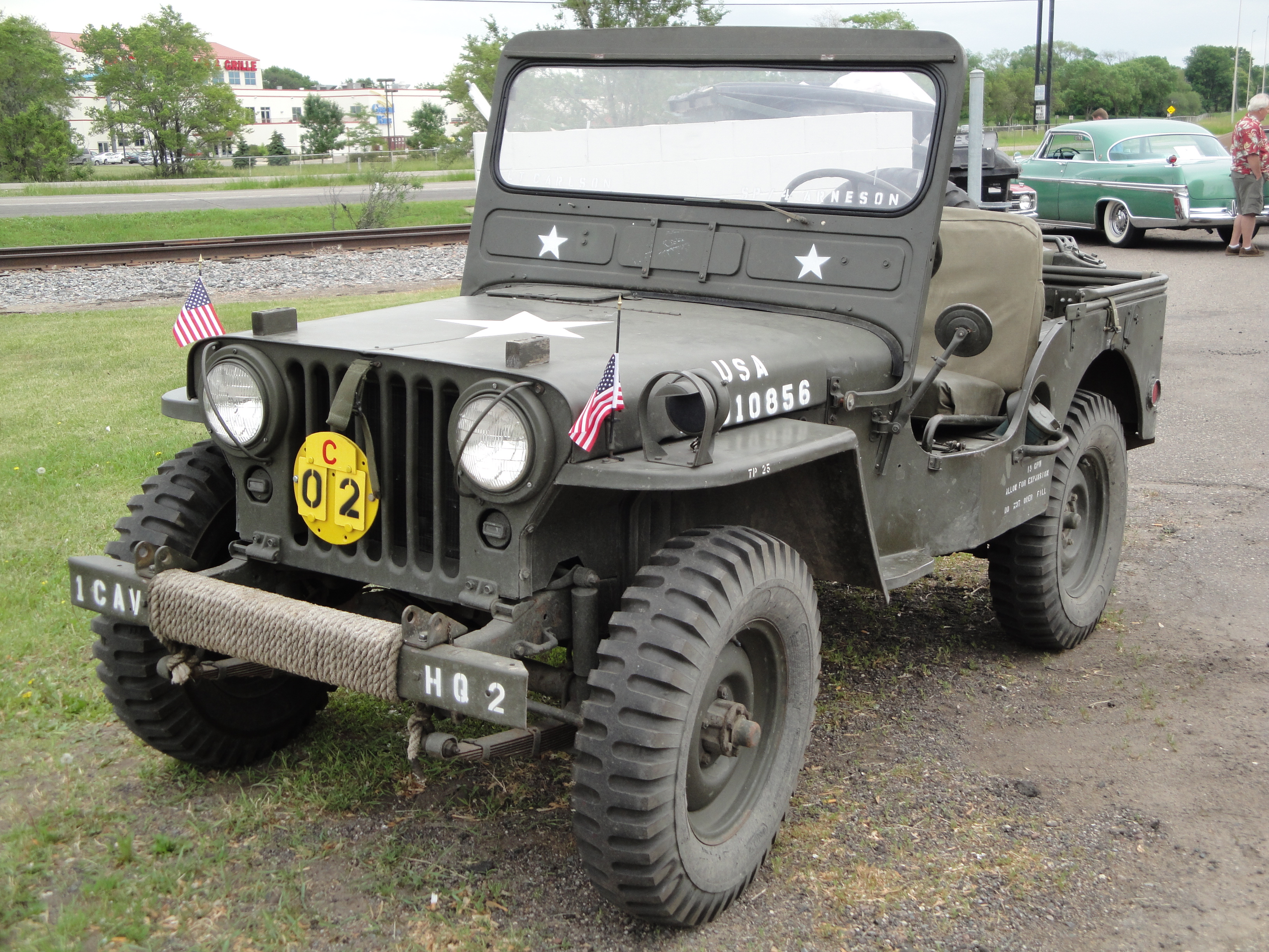 W.P.C. Restorers Club 10,000 Lakes Region Car Show June 12, 2011 Wagner's Drive in